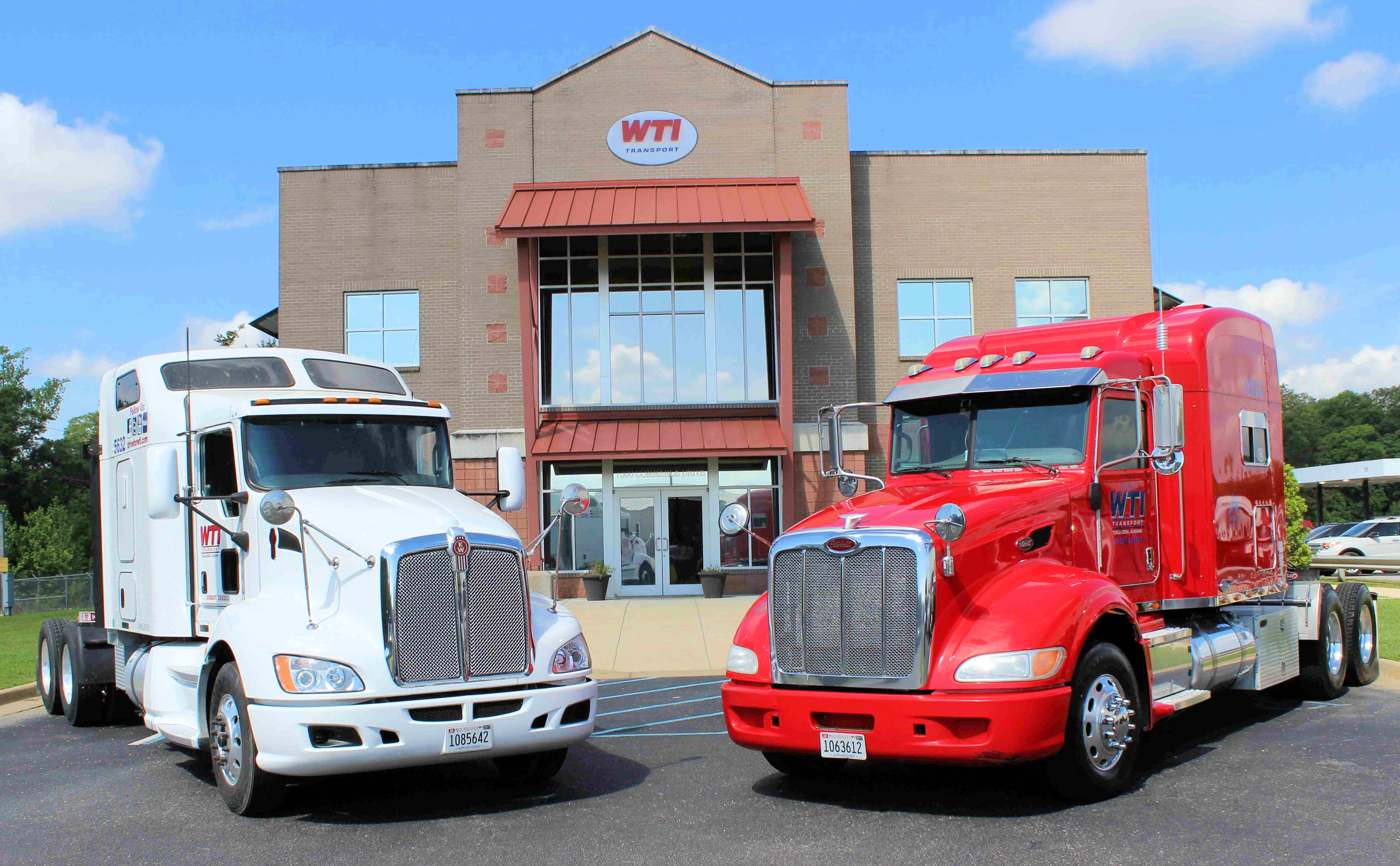 I took this picture of WTI corporate office located in Tuscaloosa, Al. Placed in front of the office are a white KW and red Peterbilt tractor.